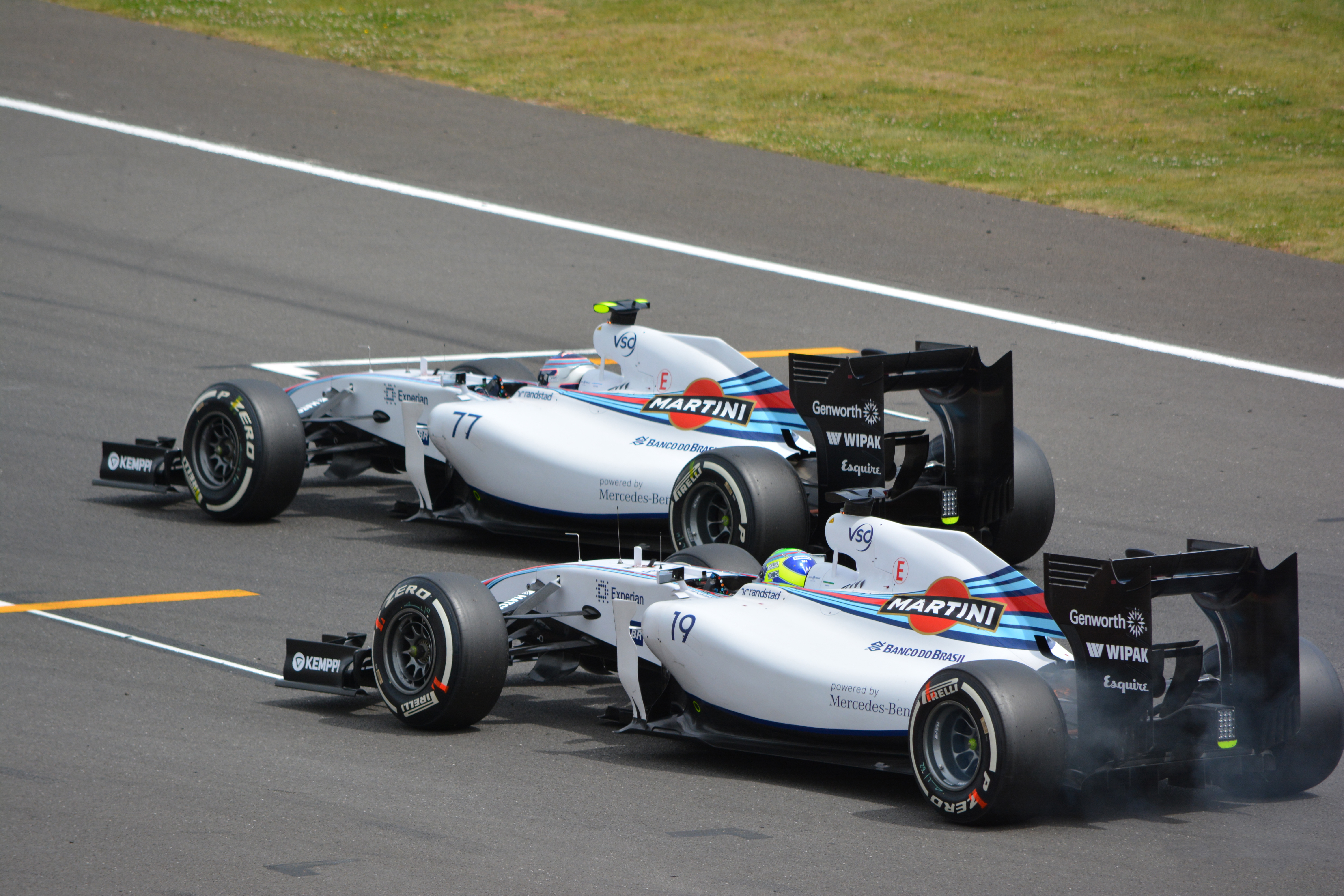 Felipe Massa and Valterri Bottas at 2014 British Grand Prix